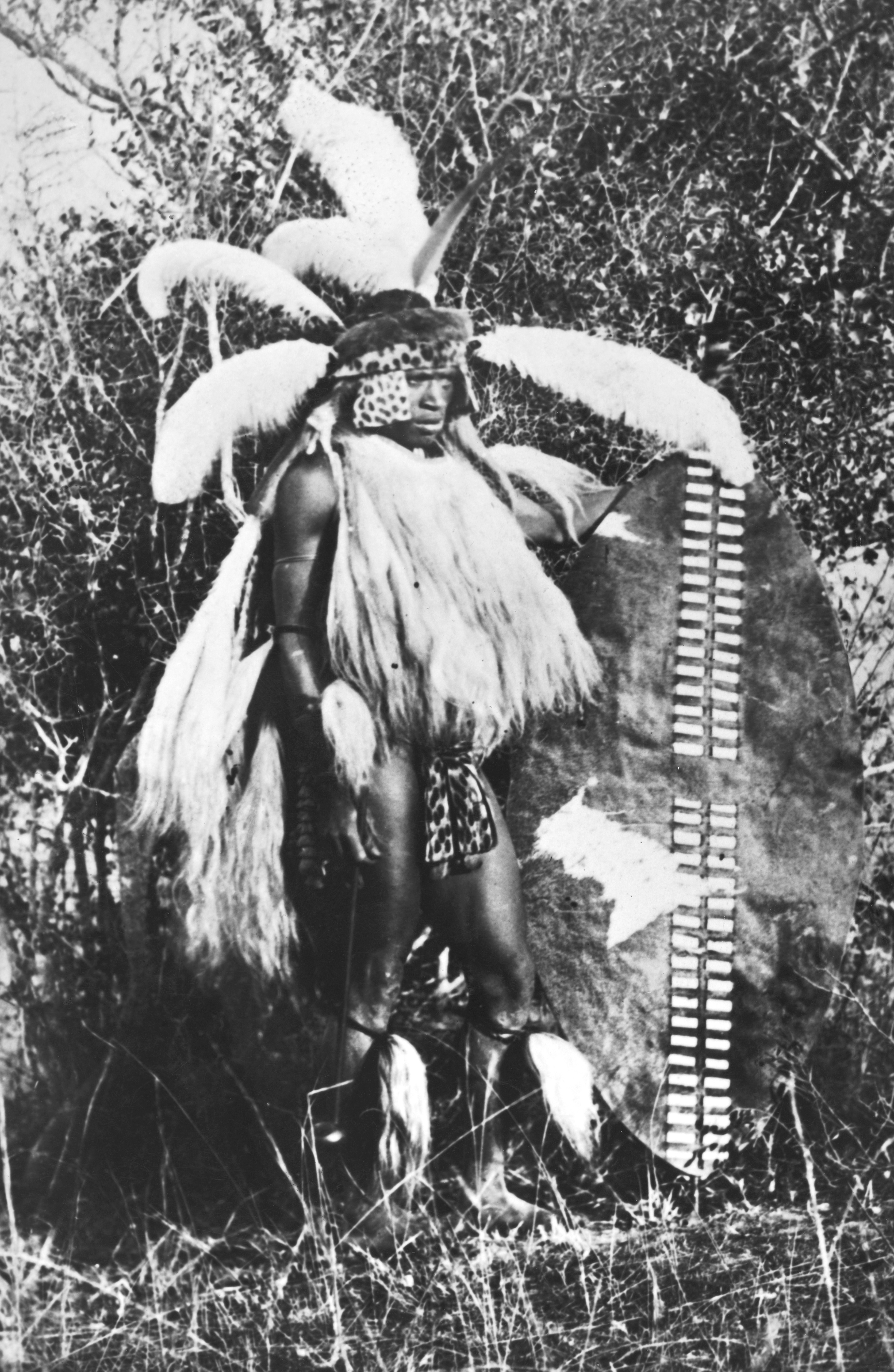 'n Young Zulu warrior, photographed in 1860. All men younger than 40 was called to service in three age regiments, each with recognisable headgear and shield.